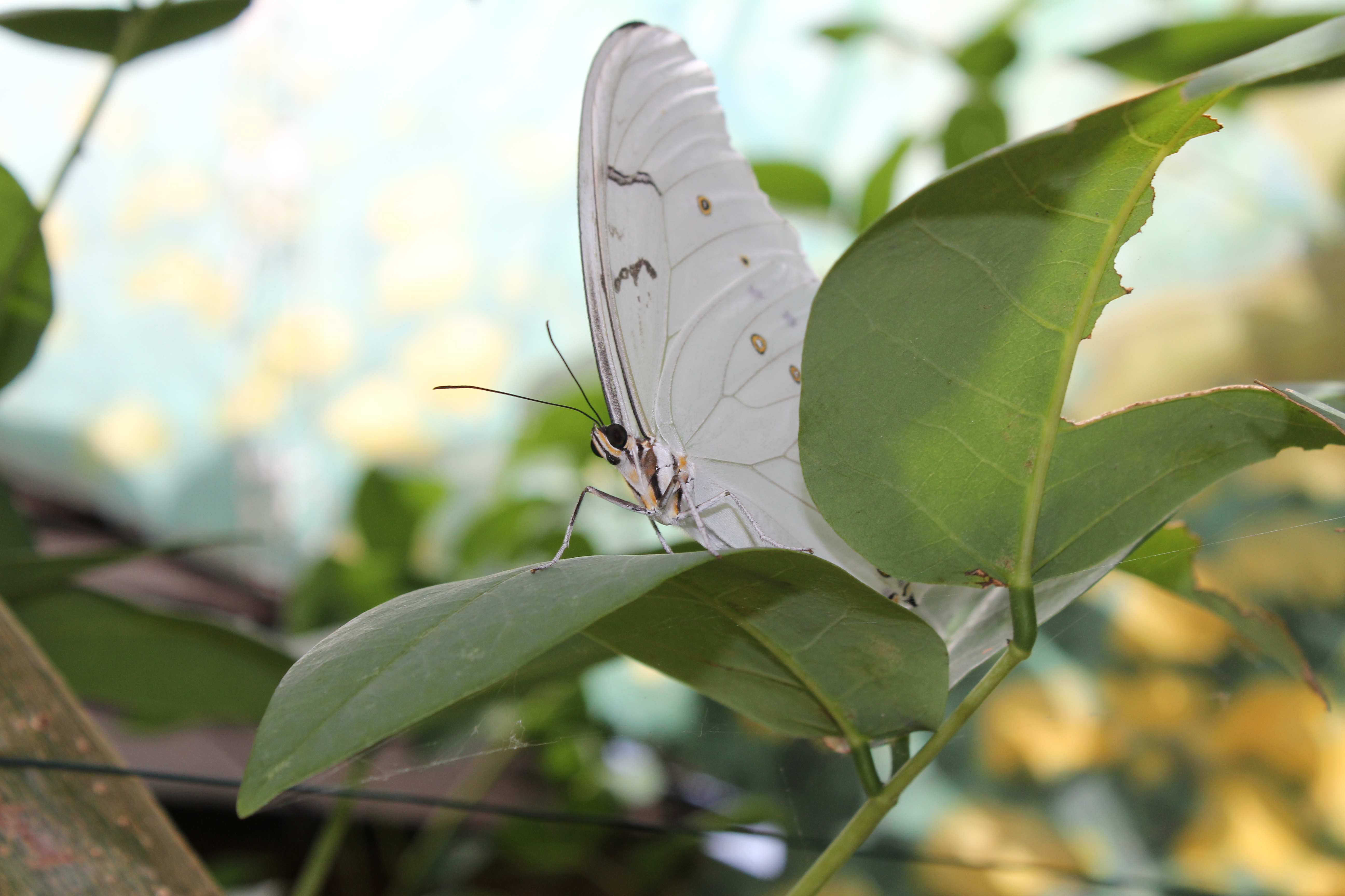 This image of a white Morpho butterfly was taken at Butterfly World on the Isle of Wight by Daniel King